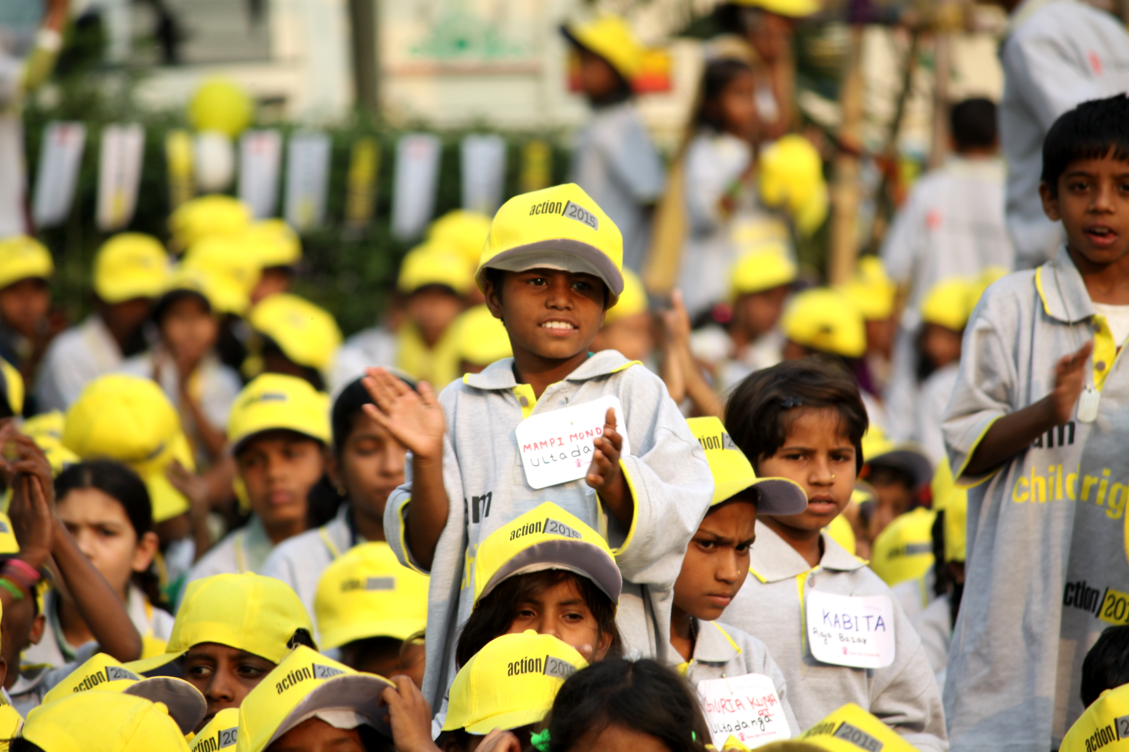 Children take part in an action/2015 launch event, organised by Save The Children India on 15 January 2015